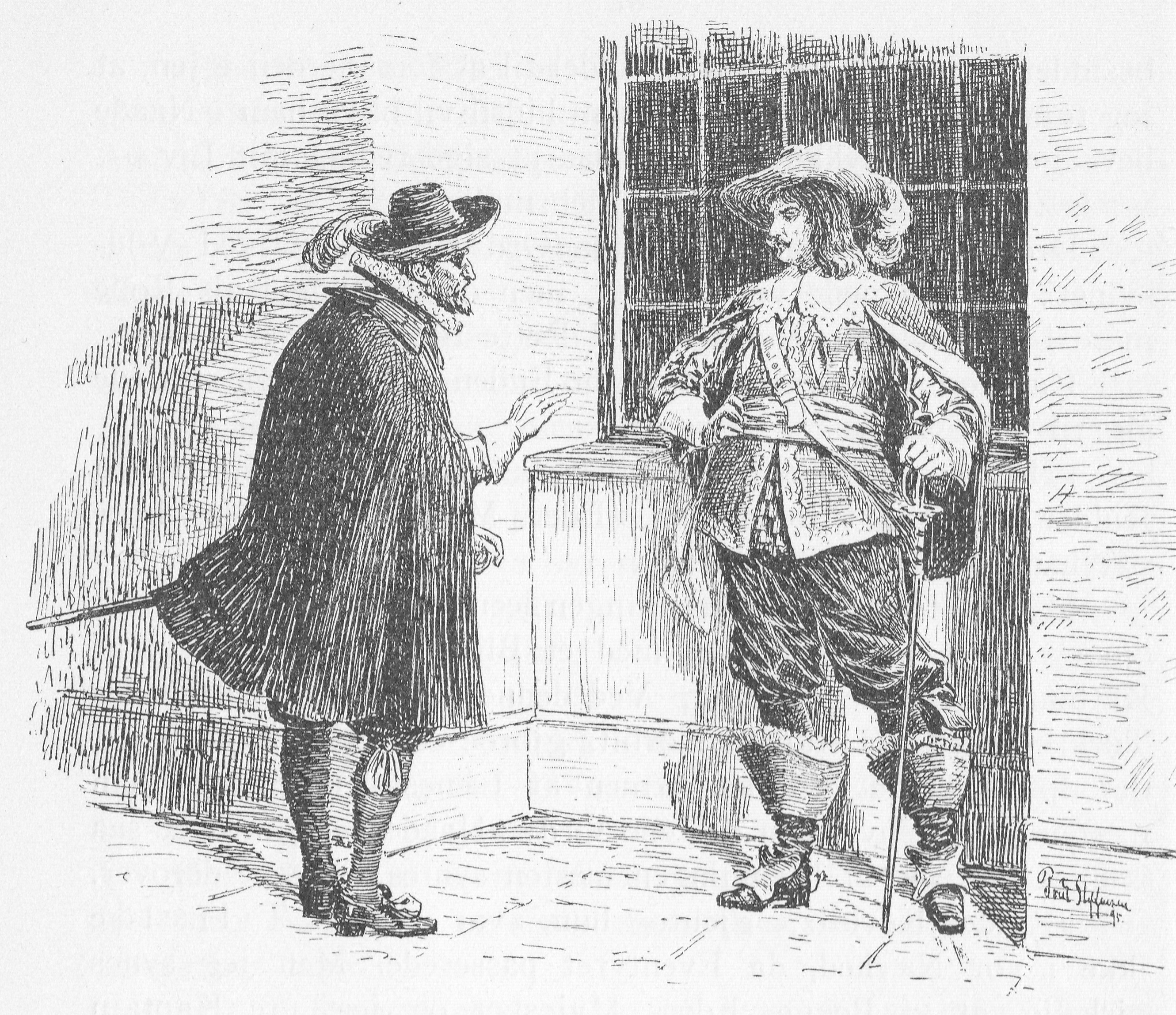 Illustration by Poul Steffensen from the Danish novel Gjøngehøvdingen by Carit Etlar which takes place during and after the Dano-Swedish War in 1657-1658. The vassal Oluf Brockenhuus and Captain Kai Lykke comes to terms after a previous argument. Kai Lykke admits that he has offended Oluf Brockenhuus by blaming him for a delayed order. But Oluf Brockenhuus let it slip because he can't fight back now that he has become an old cripple. Oluf Brockenhuus (1611-1672) and Kai Lykke (1625-1699) were real persons but the story is fiction.